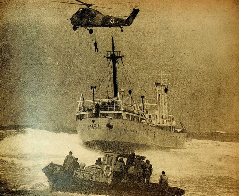 Port of Jaffa